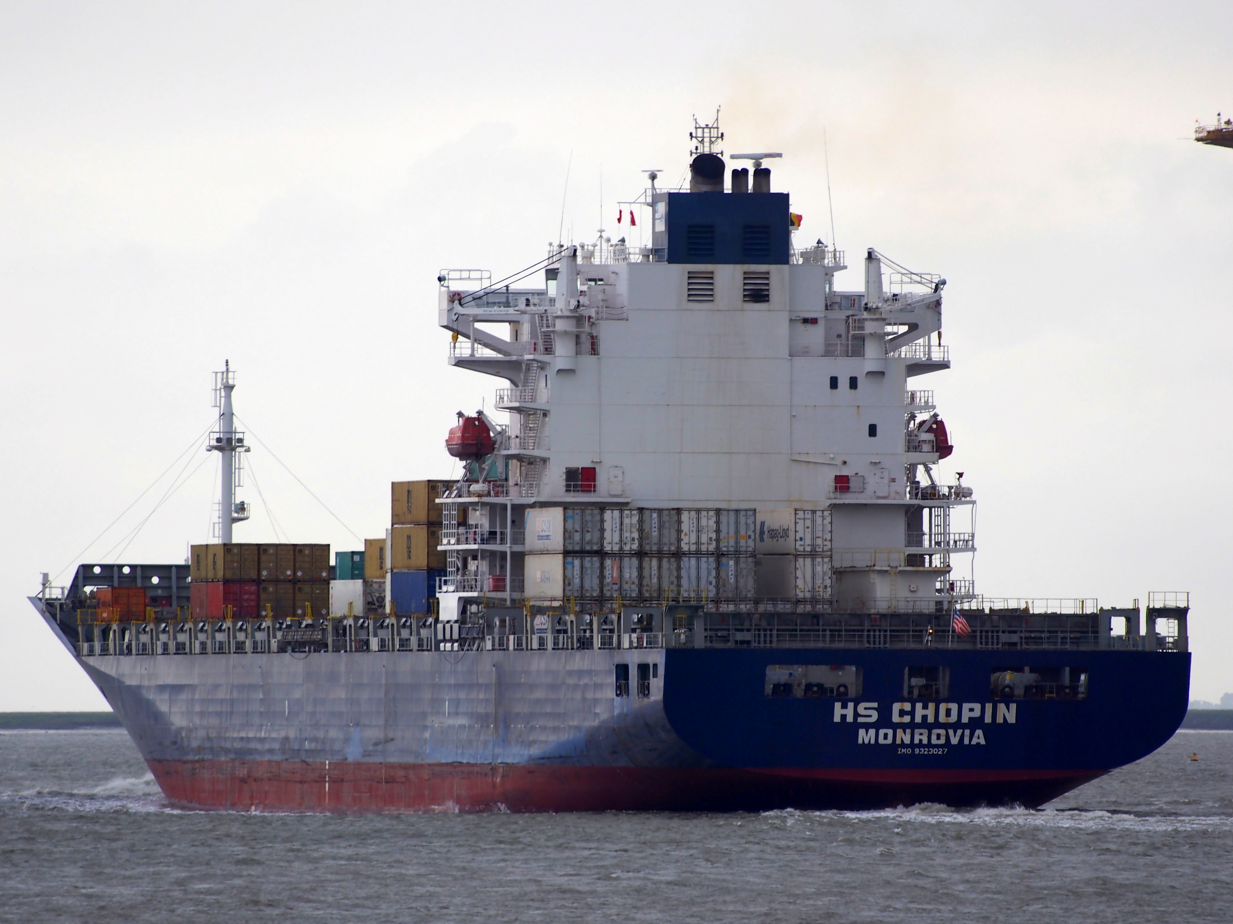 HS Chopin - IMO 9323027, leaving Port of Antwerp.